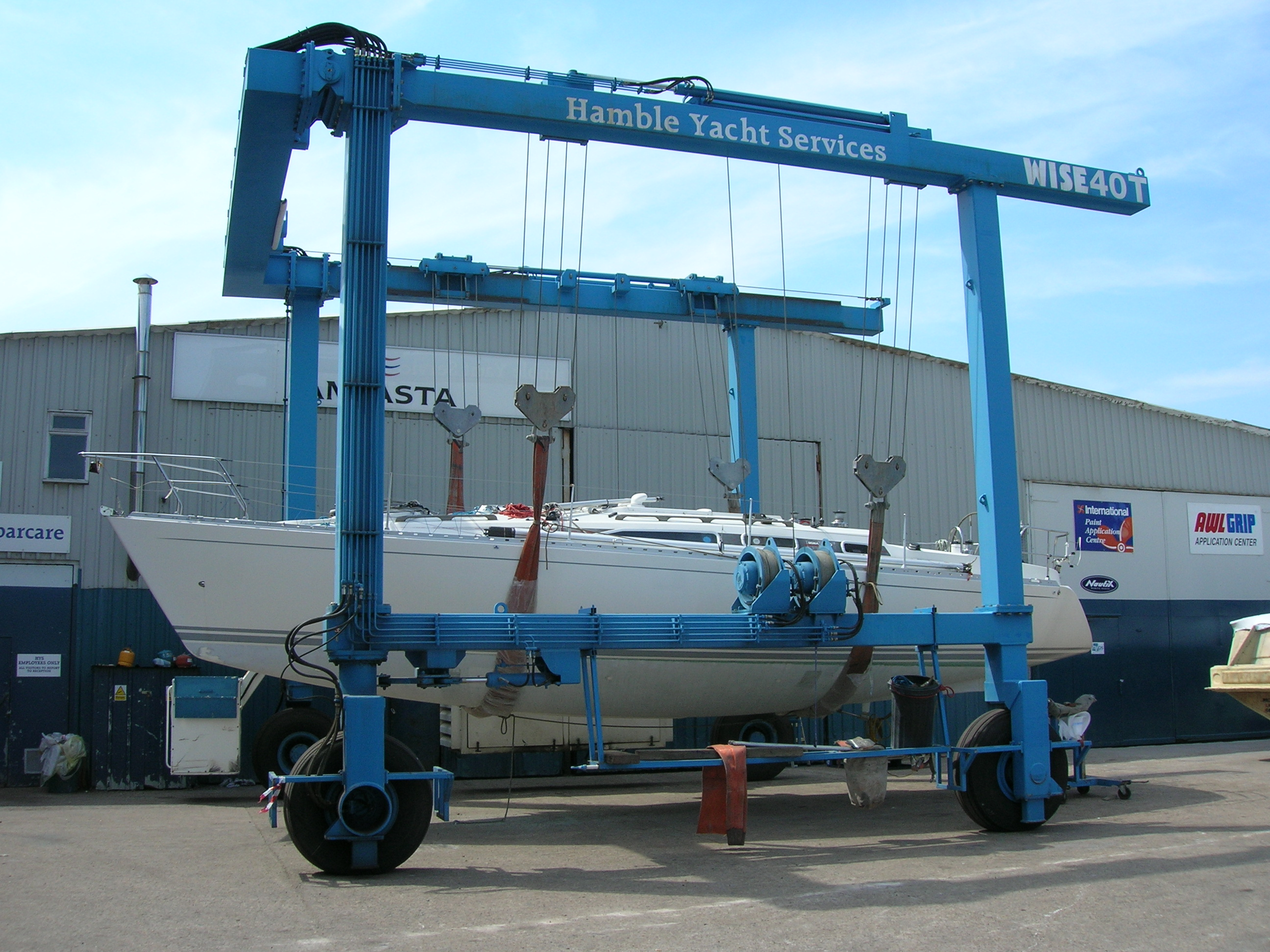 Straddle carrier used to lift sailboats out of water and put them on shore. Hample Marina.